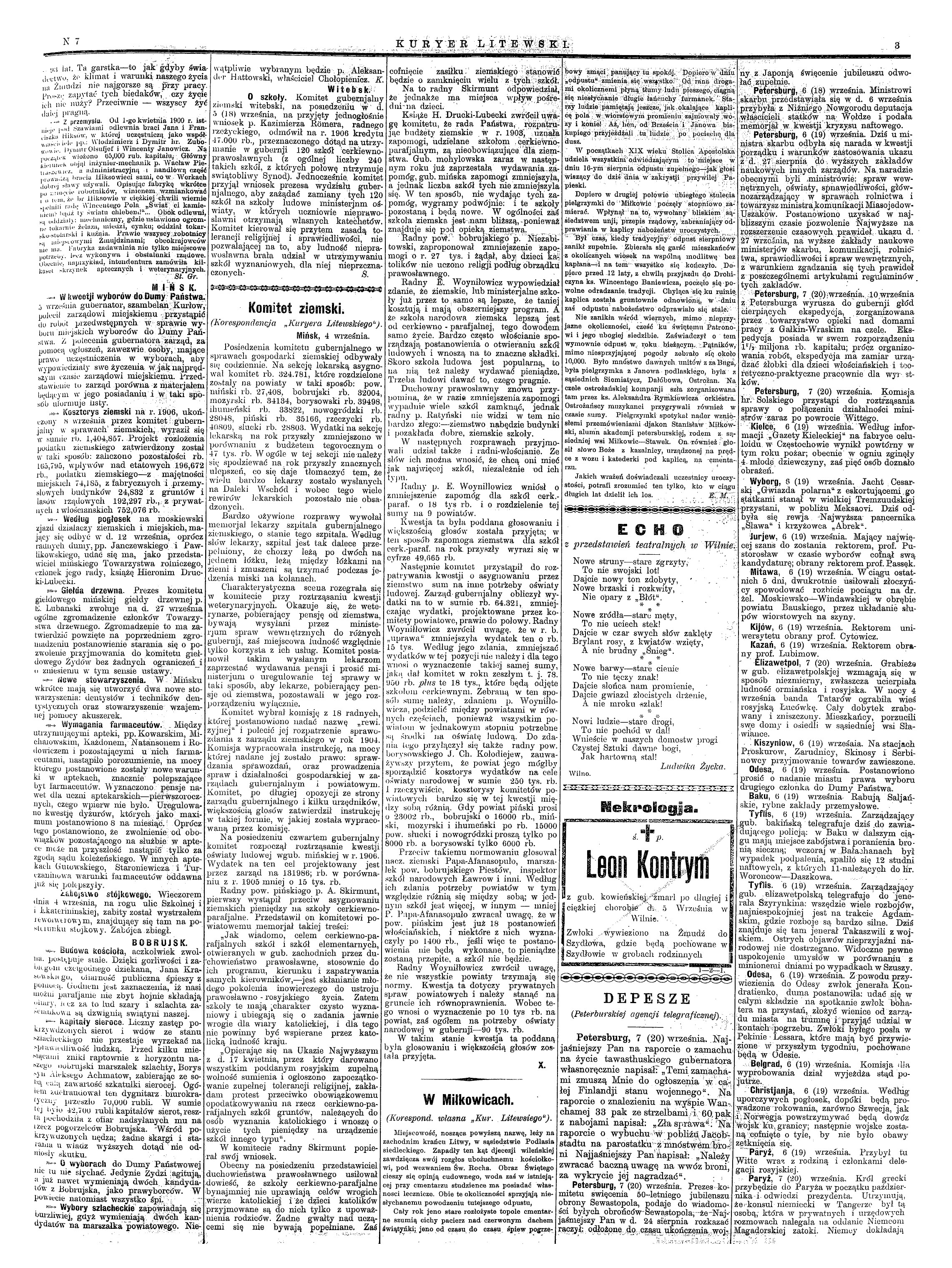 third page of newspaper "Kuryer Litewski" (#7, 1905 AD), Russian empire